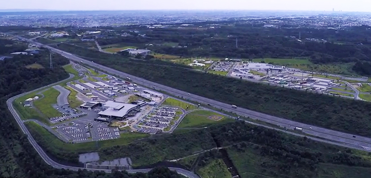 Aerial view of Hamamatsu Service Area (inbound) of the Shin-Tomei Expressway in Hamamatsu, Shizuoka Prefecture, Japan.